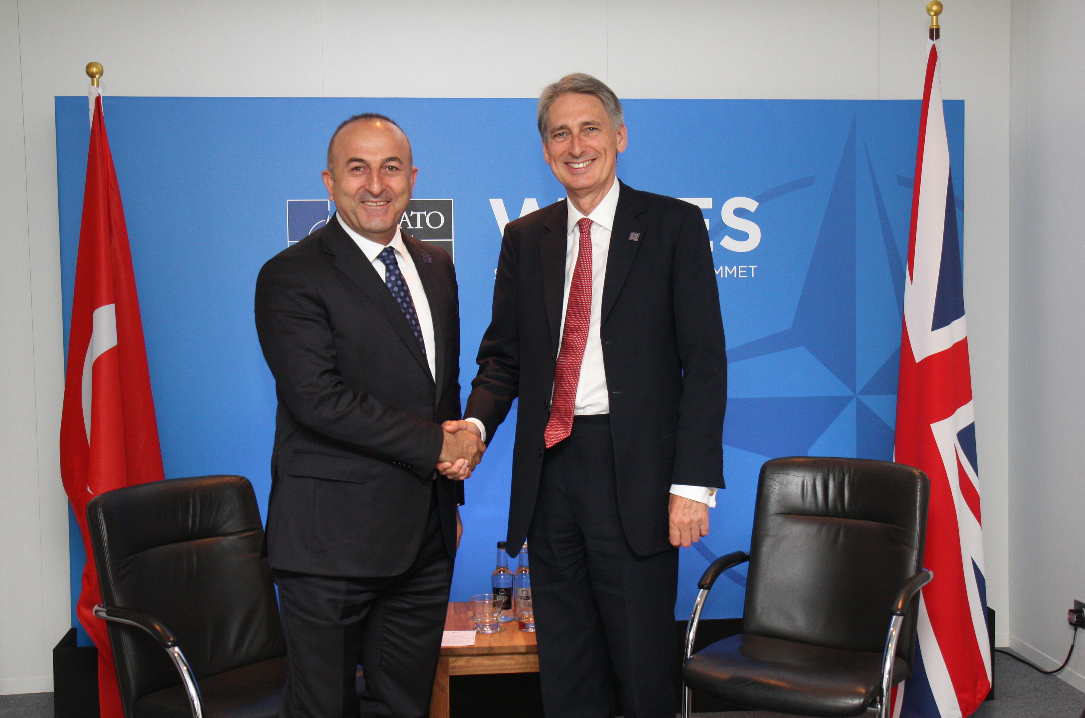 Foreign Secretary Philip Hammond meeting Mevlüt Çavuşoğlu, Turkish Minister of Foreign Affairs at the NATO Summit in Wales, 5 September 2014.